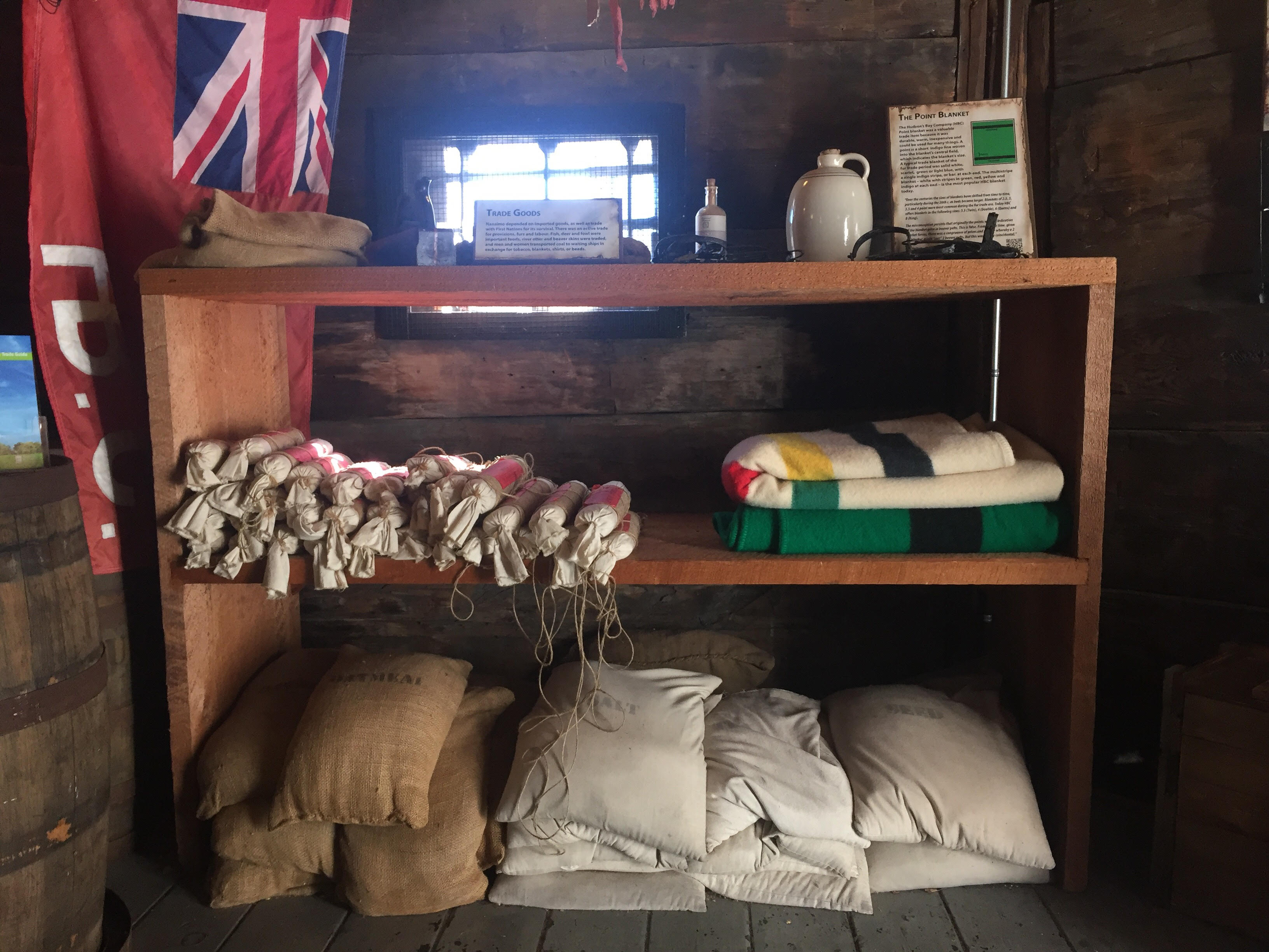 An example of trade goods that would have been kept in the Bastion